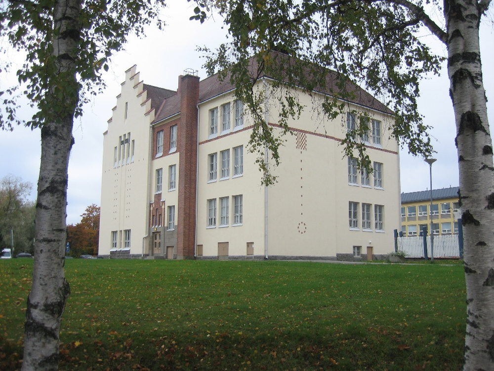 Joensuu music institute